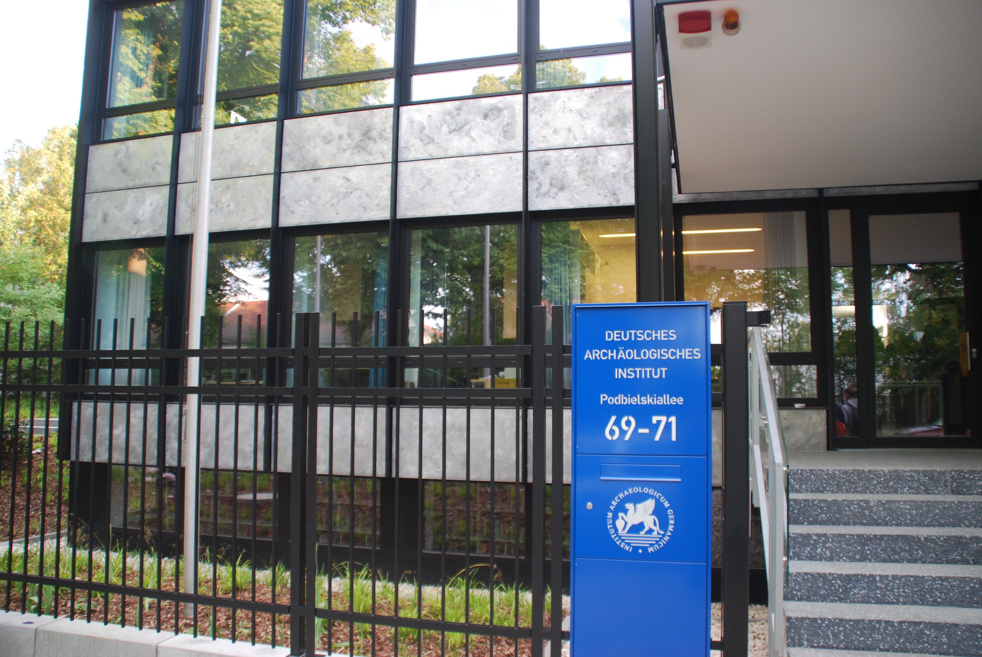 Lange Nacht der Wissenschaften DAI Berlin June 2012